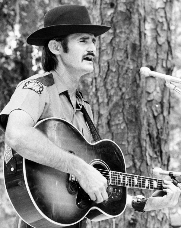 Local call number: fa3934 Title: [Dale Crider performing at the 1972 Florida Folk Festival : White Springs, Florida] Date: Photographed in May 1972. Physical descrip: 1 photoprint : b&w ; 8 x 10 in. Series Title: ( General note: Crider, from Alachua County, is now retired after 32 years with the Florida Game and Fresh Water Fish Commission, and has served the state as a waterfowl biologist, environmental protector and educational specialist. He sings about environmental themes. Repository: 500 S. Bronough St., Tallahassee, FL 32399-0250 USA. Contact: 850-245-6700. Persistent URL